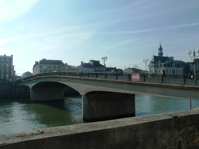 Patton's army bridge in Corbeil-Essonnes on the Seine river (France, Essonne)